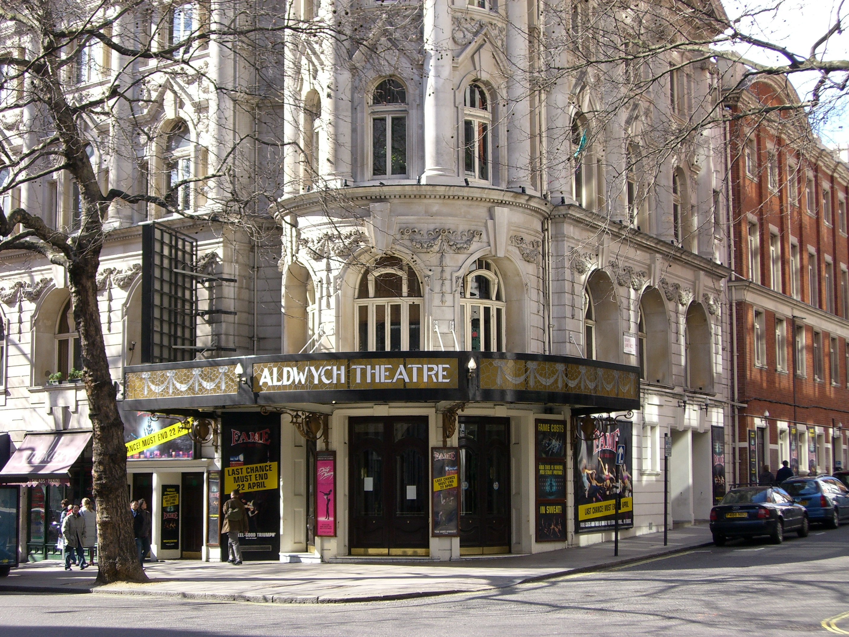 Aldwych Theatre, 49 Aldwych, London WC2B 4DF Photo taken by User:Edward on 19 March 2006 with a Casio EX-S600.